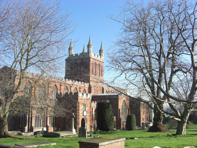 Crediton : The Collegiate Church of the Holy Cross The parish of Crediton centres around the Church of the Holy Cross, a building with a long history. It is the house of God for the whole community.